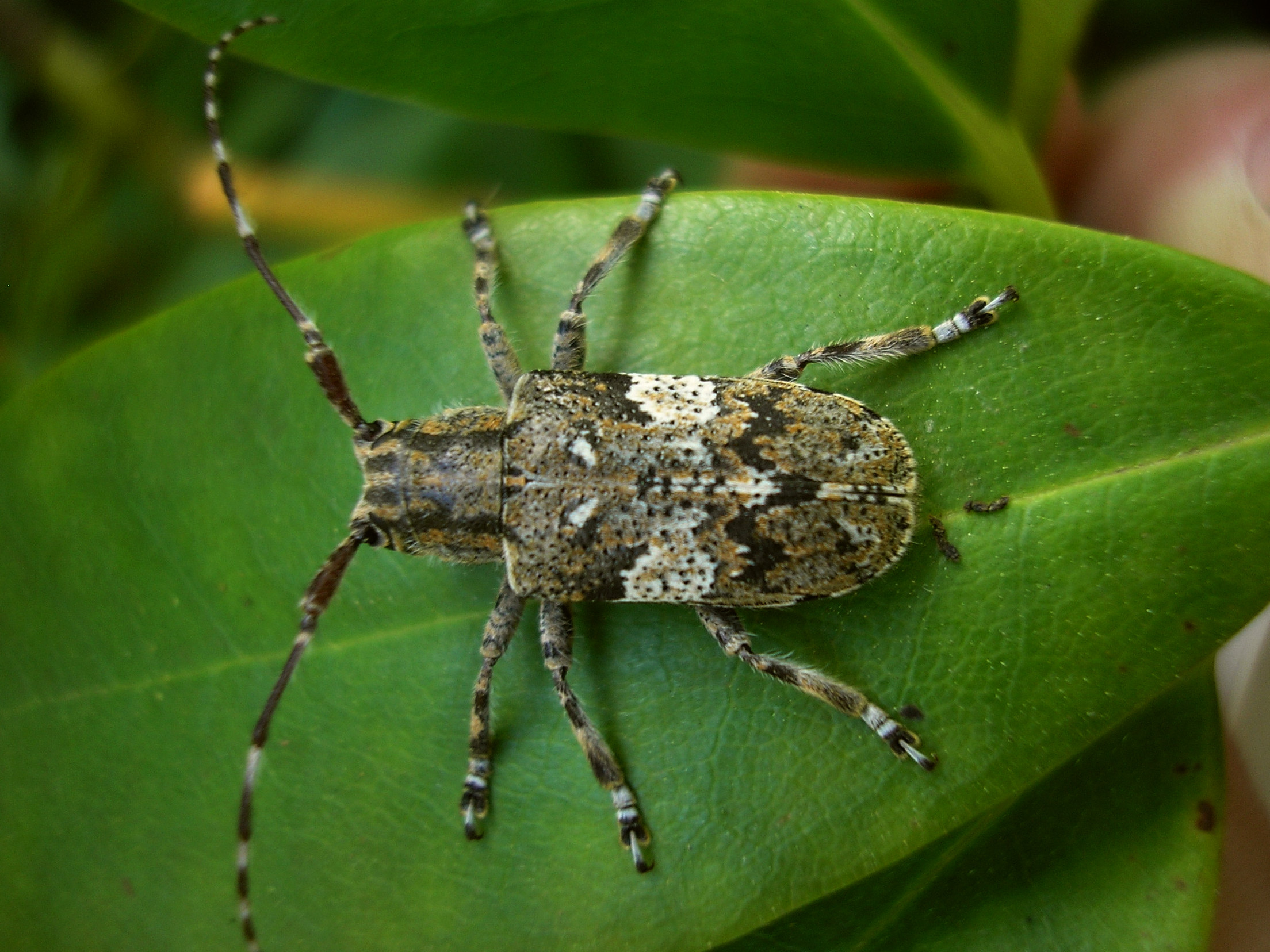 Longhorn beetle Mesosa nebulosaLocation: Meulenbelt, Almelo, NetherlandsKeywords: Cerambycidae, Lamiinae